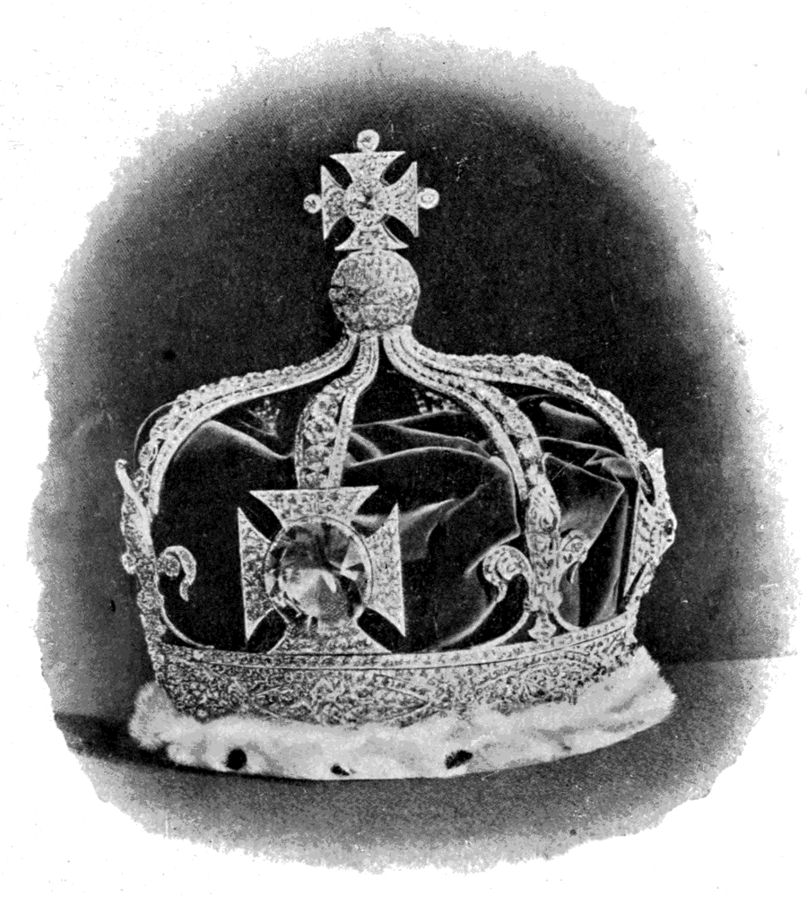 Fig. 643.—Queen Alexandra's Coronation Crown.